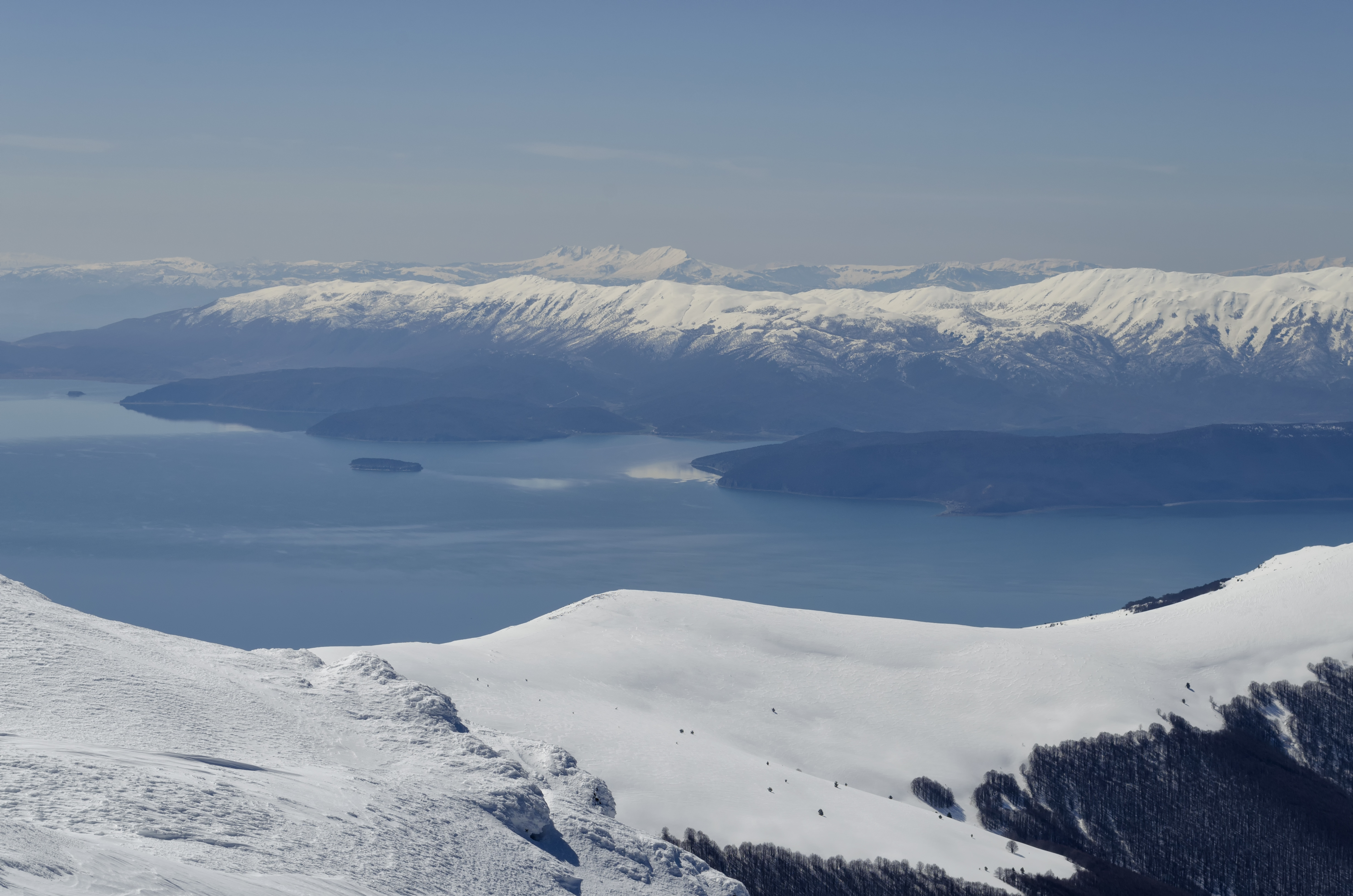 Lake Prespa with the mountain Galičica in the background as seen from Pelister (2,601 m)